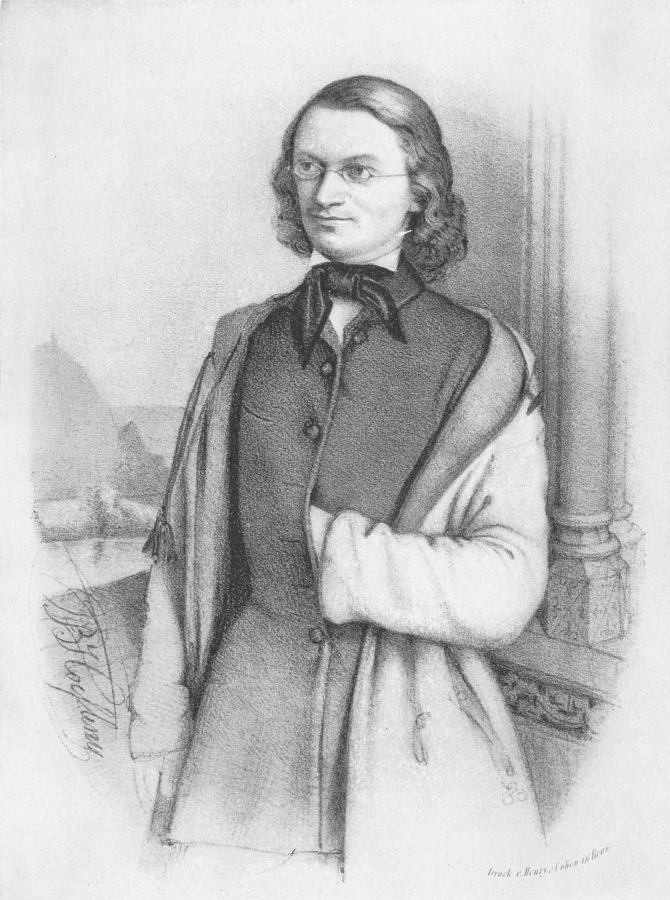 A three-quarters length portrait drawing of Carl Schurz at 19 years of age (1848).